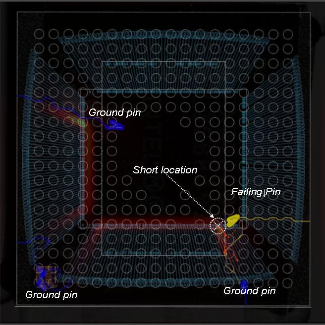 SQUID Image of stacked chip